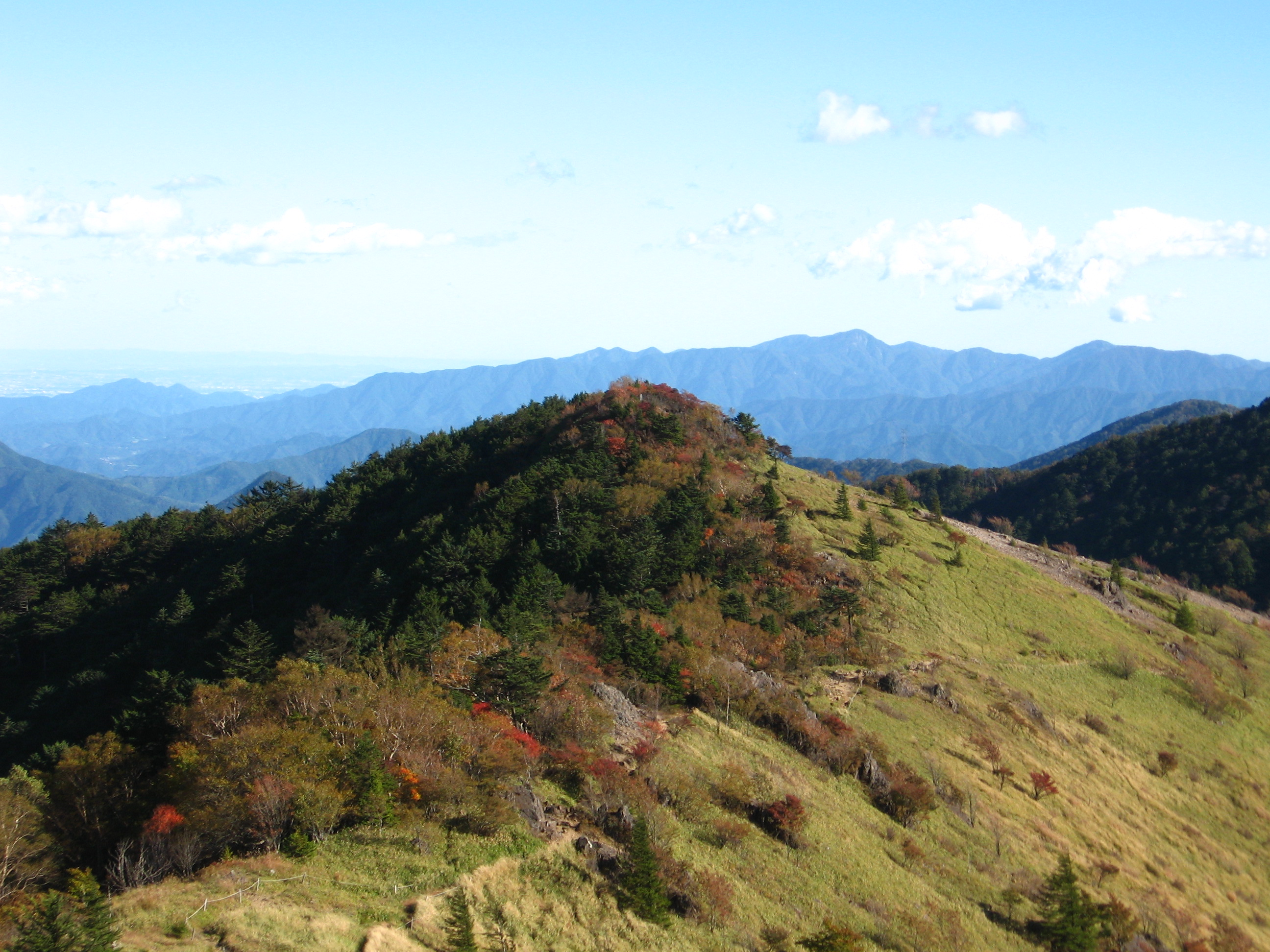 daibosatsu pass